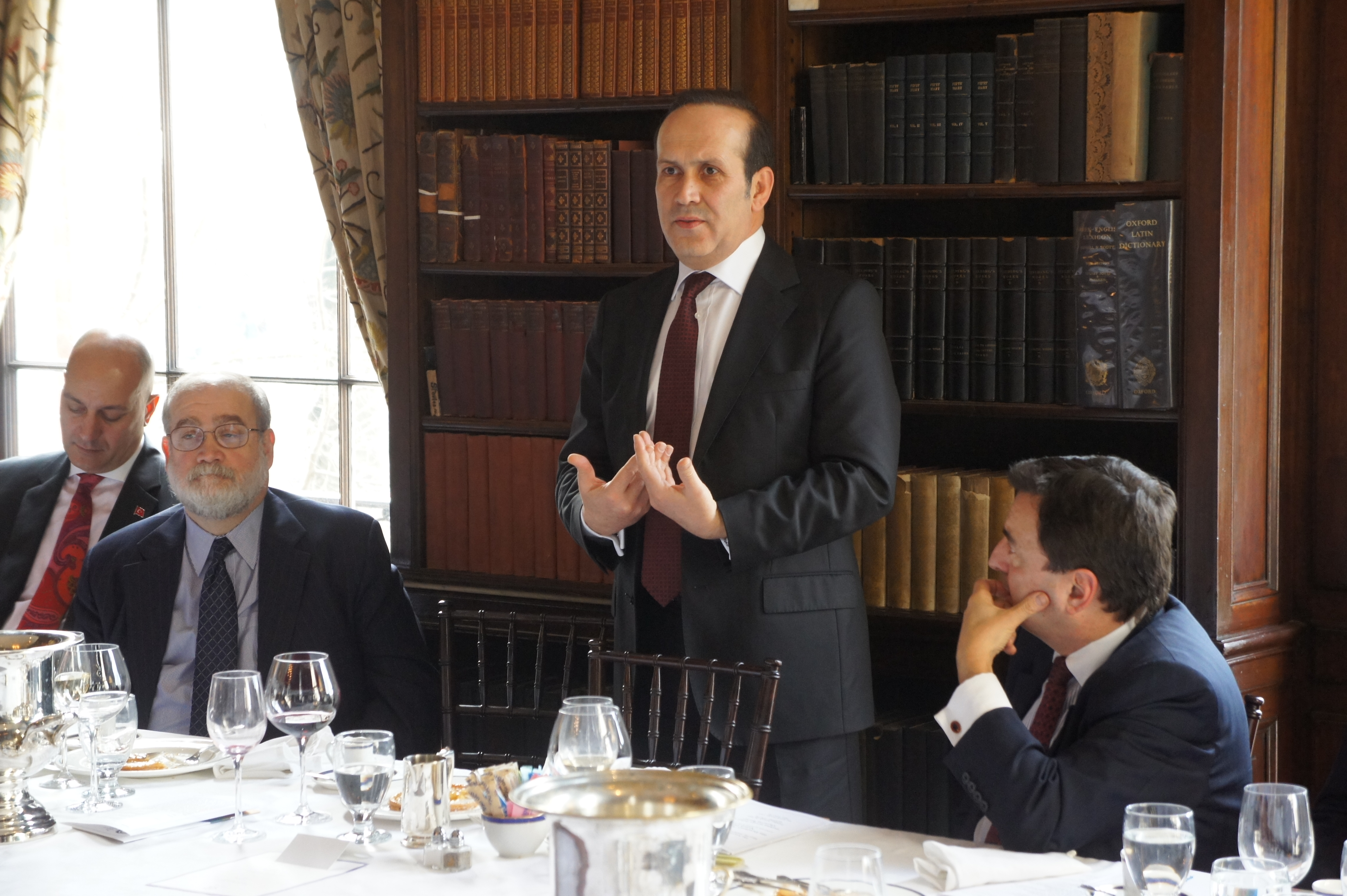 ATS Vice Chairman Larry Kaye, Ambassador Namik Tan, and ATS Chairman Murat Koprulu